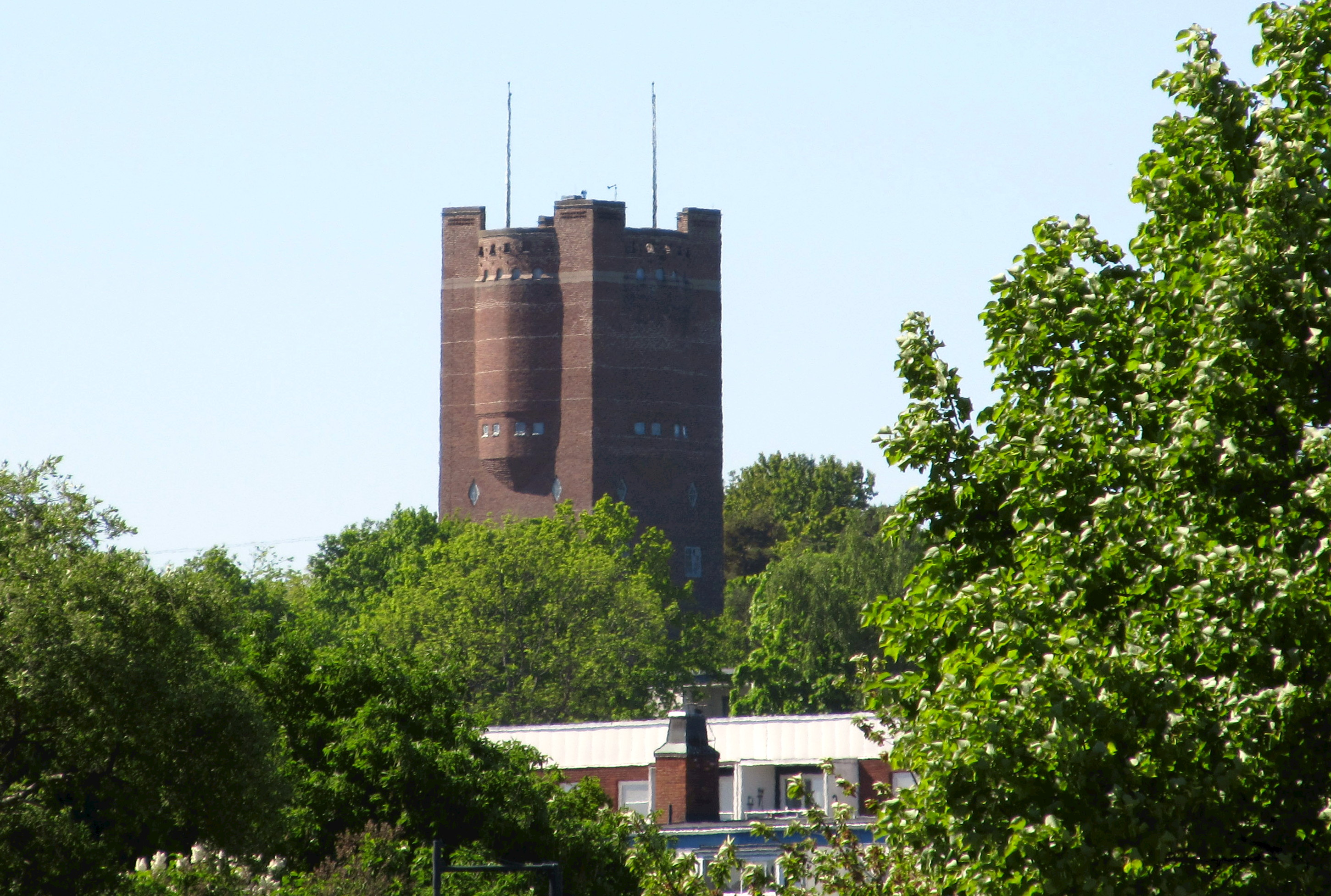 Water tower in Oskarshamn, Sweden, Europe.